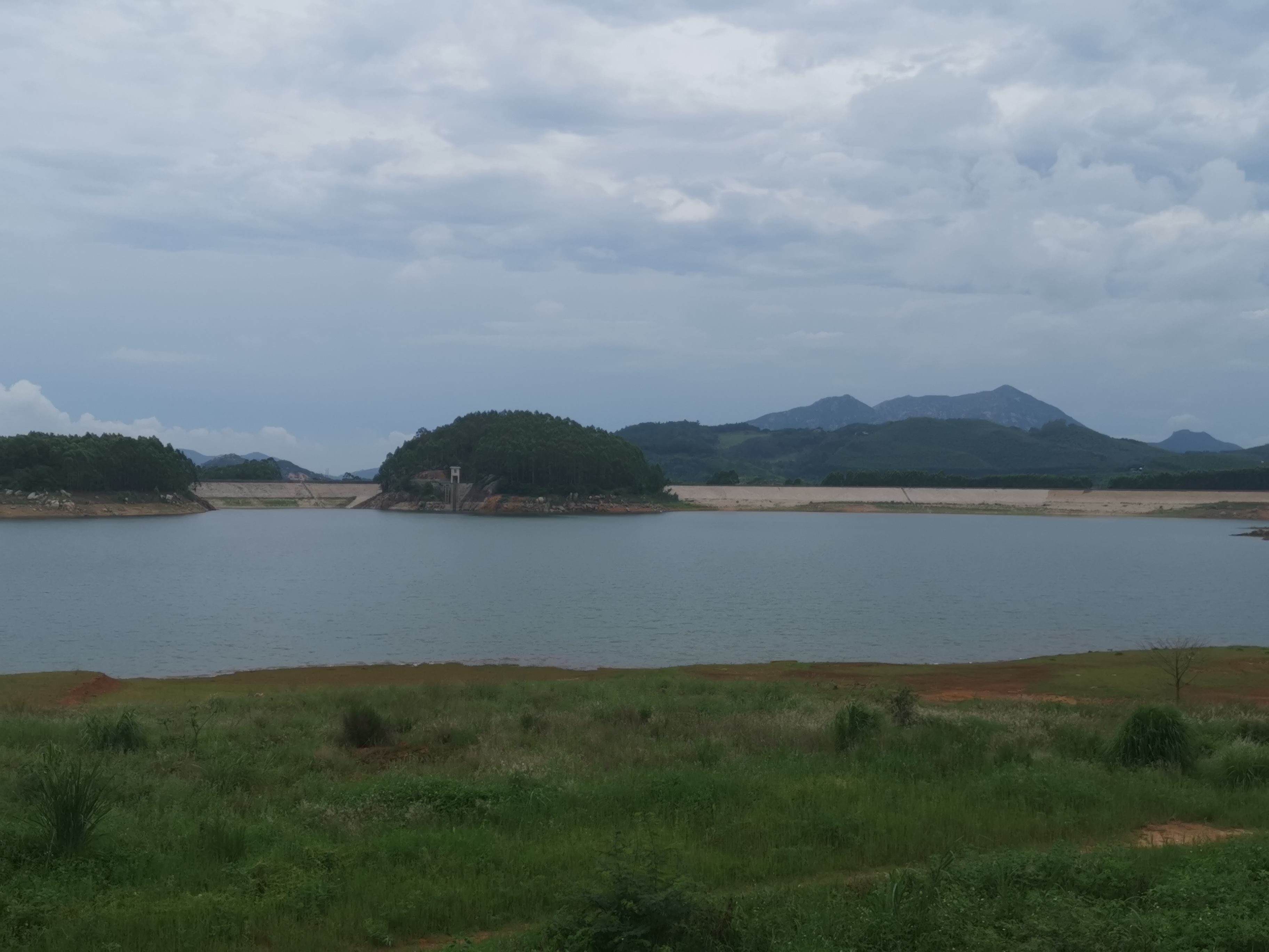 Reservoir Meli, Chitu, Zhangpu, Zhangzhou, Fujian, China